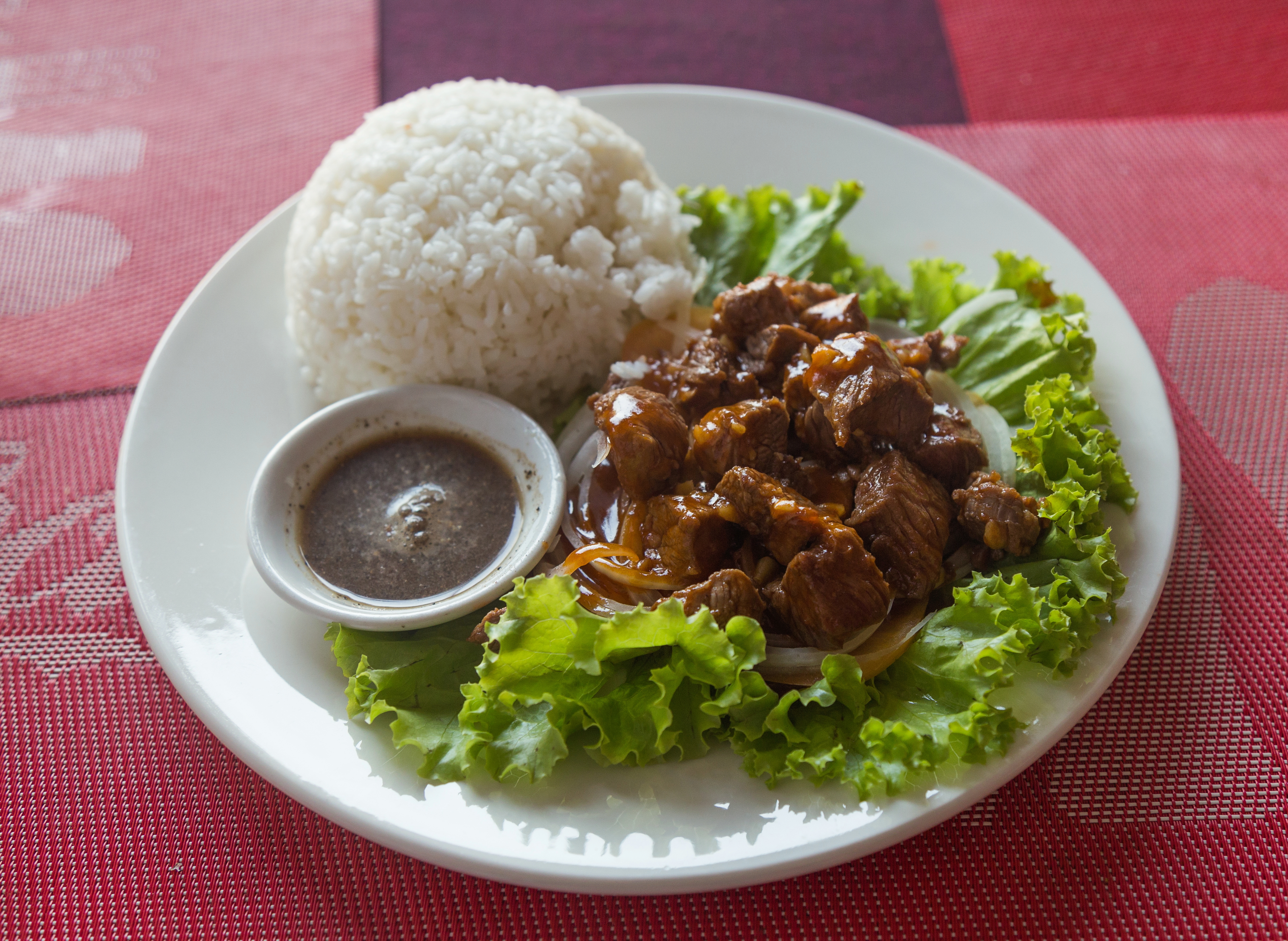 Cambodian Lok Lak: rice, beef and pepper sauce. Phnom Penh, Cambodia.